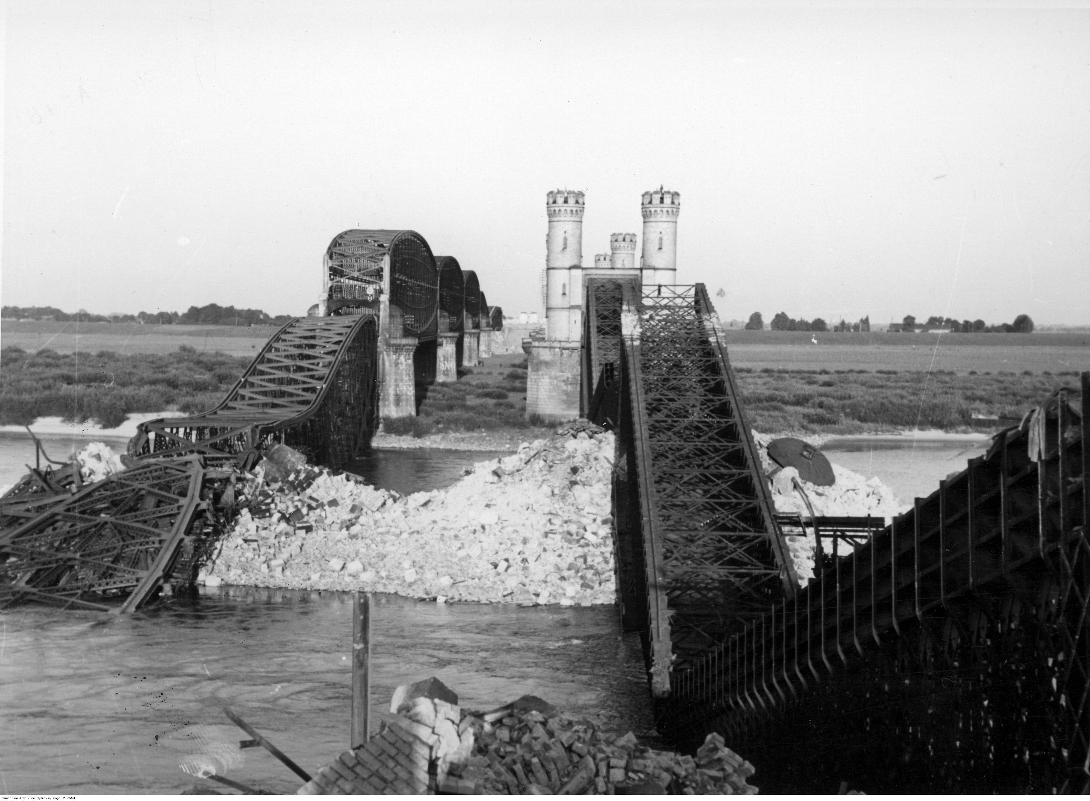 A bridge over Wisła River destroyed by Polish sappers in September 1939 in order to slow down German Army. Better photo